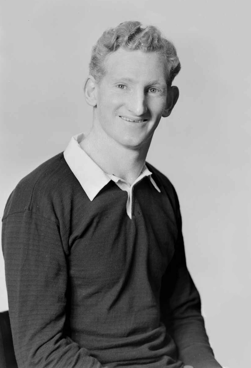 All Black player Paul Little